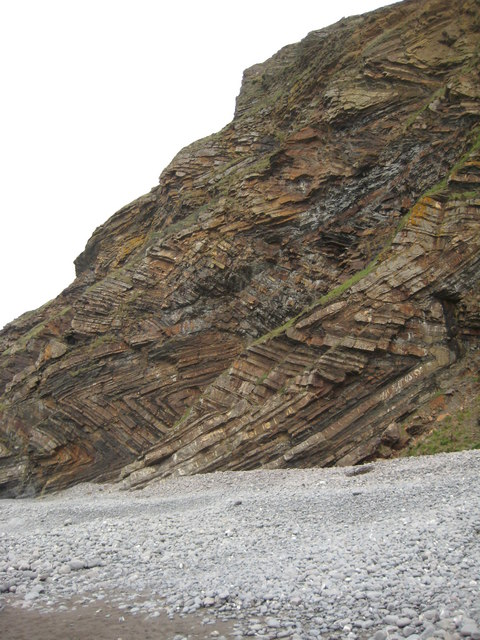 Rock strata at Millook Haven